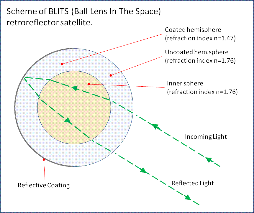 A scheme illustrating how the BLITS ball lens retroreflector concept works.